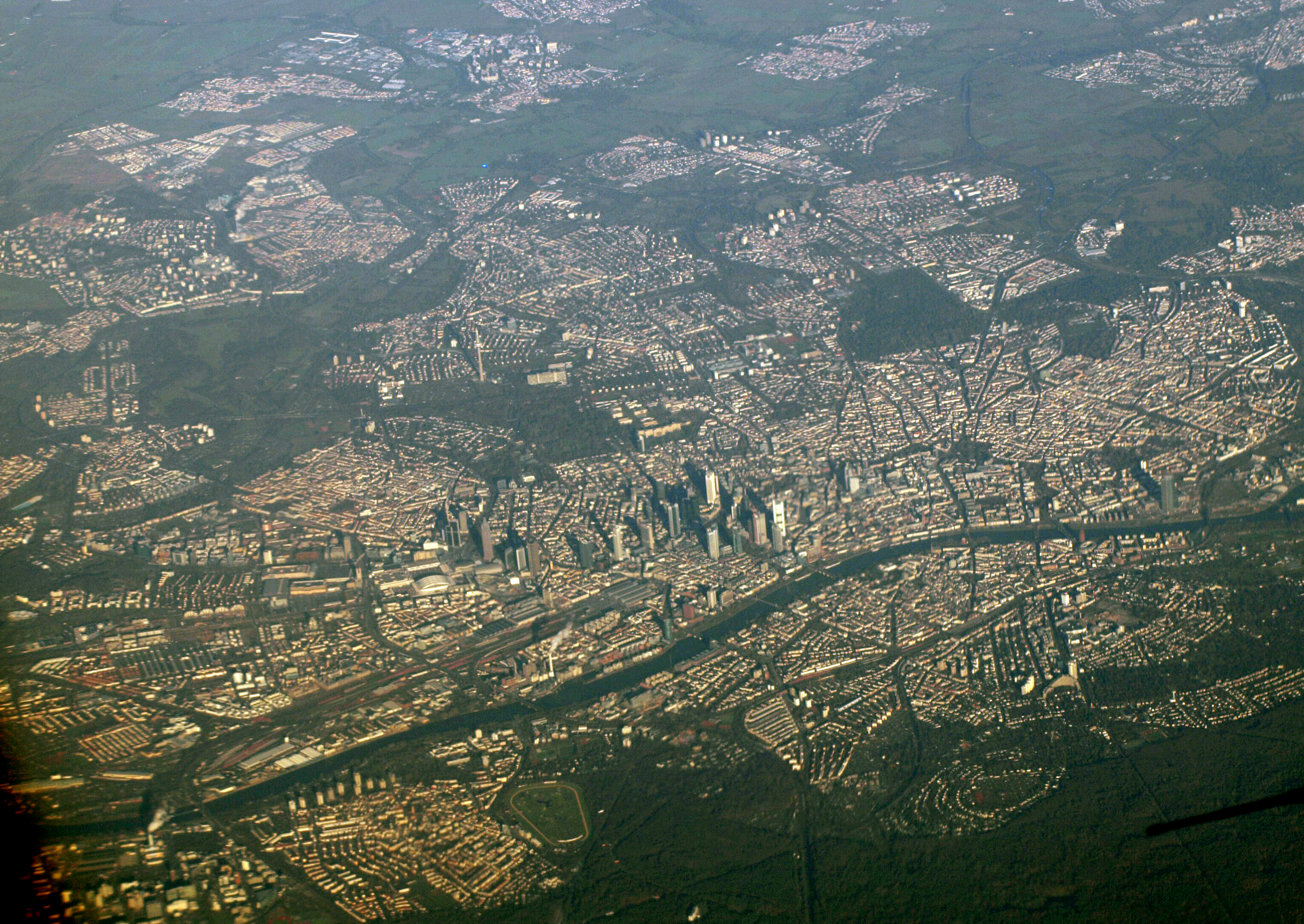 Photo taken during a regular charter flight. Further edits.